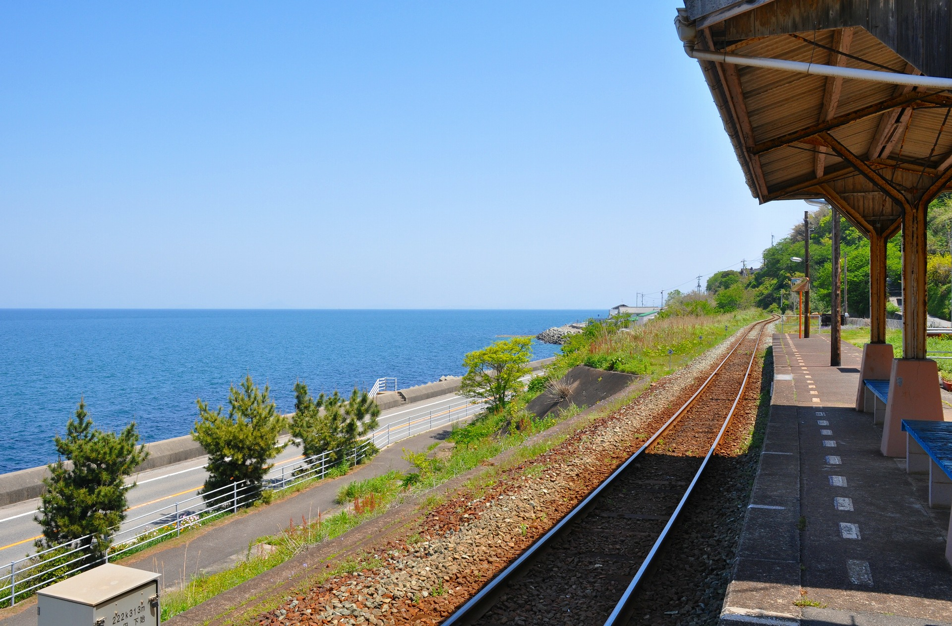 Shimonada station